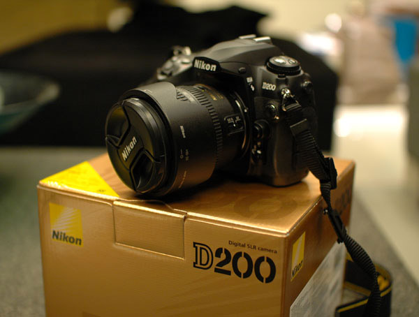 Nikon D200, digital SLR product from Japanese manufacture Nikon.